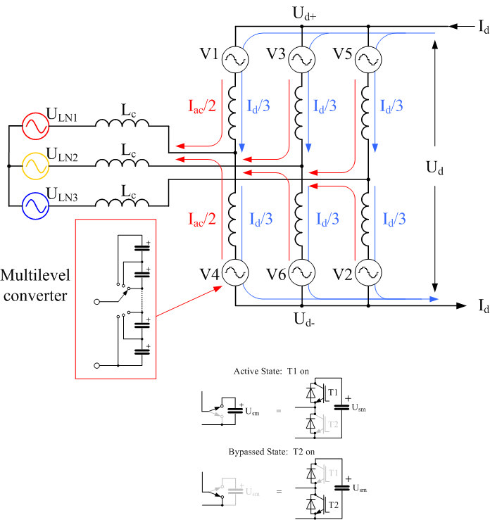 Simplified schematic arrangement of a three-phase Modular Multi-Level Converter (MMC) for HVDC.